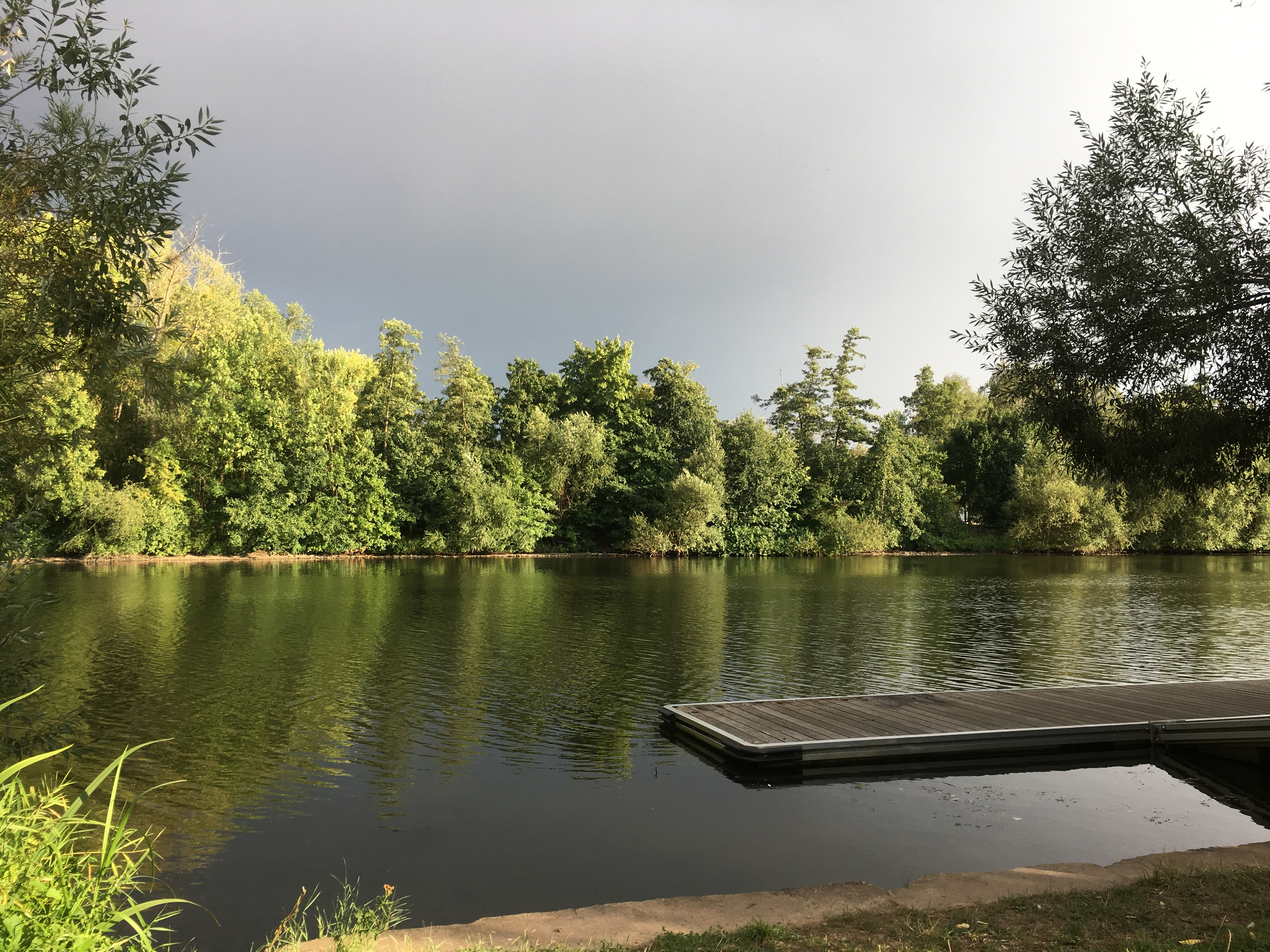 The river Fulda in the Auepark in Kassel, Germany